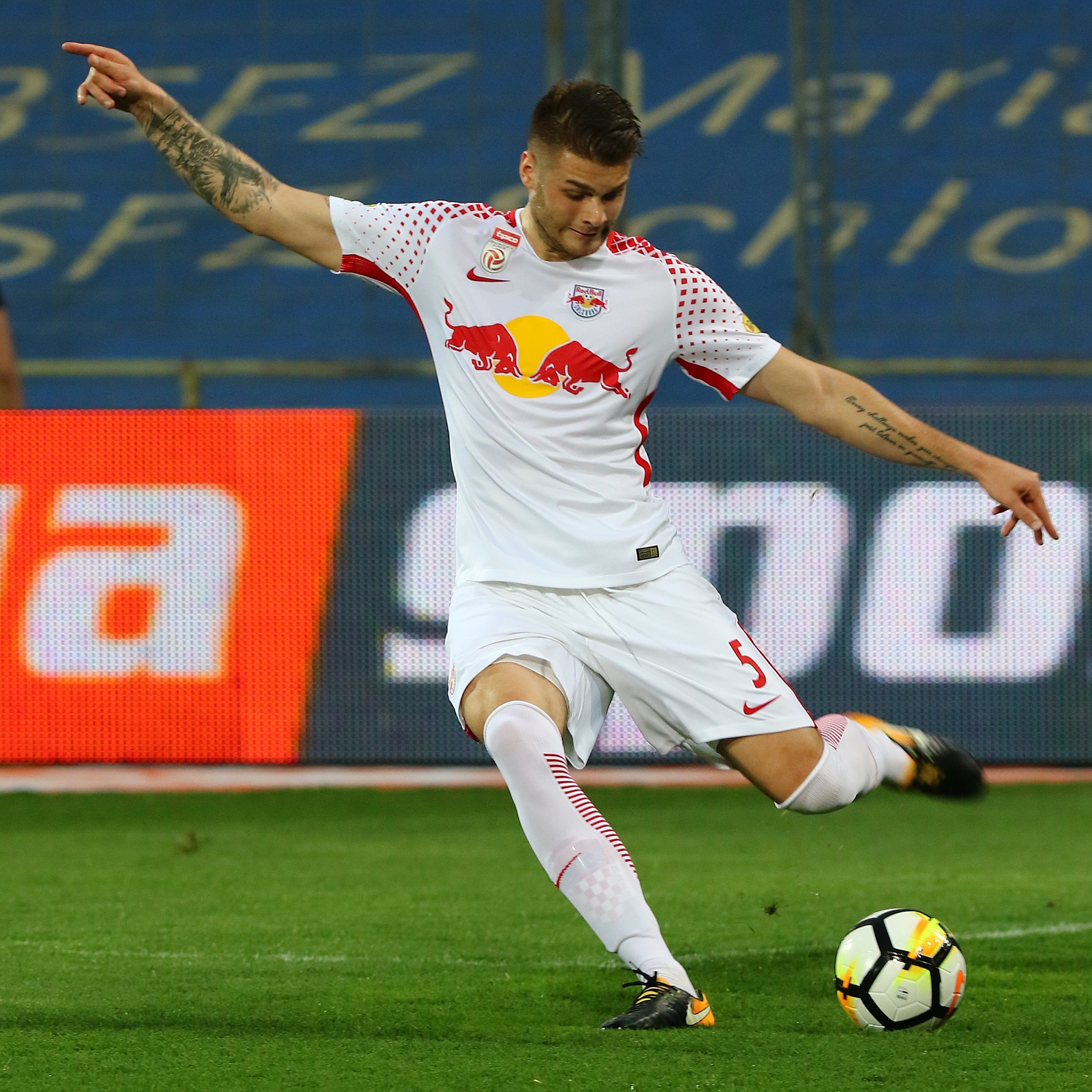 Championshipmatch of the Austrian Bundesliga 2017–18 FC Admira Wacker Mödling (red shirts) vs. FC Red Bull Salzburg (white shirts) 2-6 (1-3) at 2018-04-15 in the Bundesstadion Südstadt in Maria Enzersdorf. – The photo shows Duje Caleta-Car (FC Red Bull Salzburg).